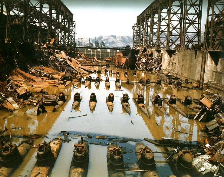 Japanese Type D ("Koryu") Midget Submarines In a partially flooded drydock at Kure Naval Base, Japan, February 1946. The larger vessel in the drydock, right background, appears to be a barge. Flooding, deposit of debris (including a bulldozer) and other damage was done after mid-October 1945